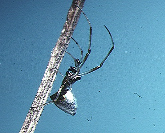 male Argyrodes bonadea from Okinawa.